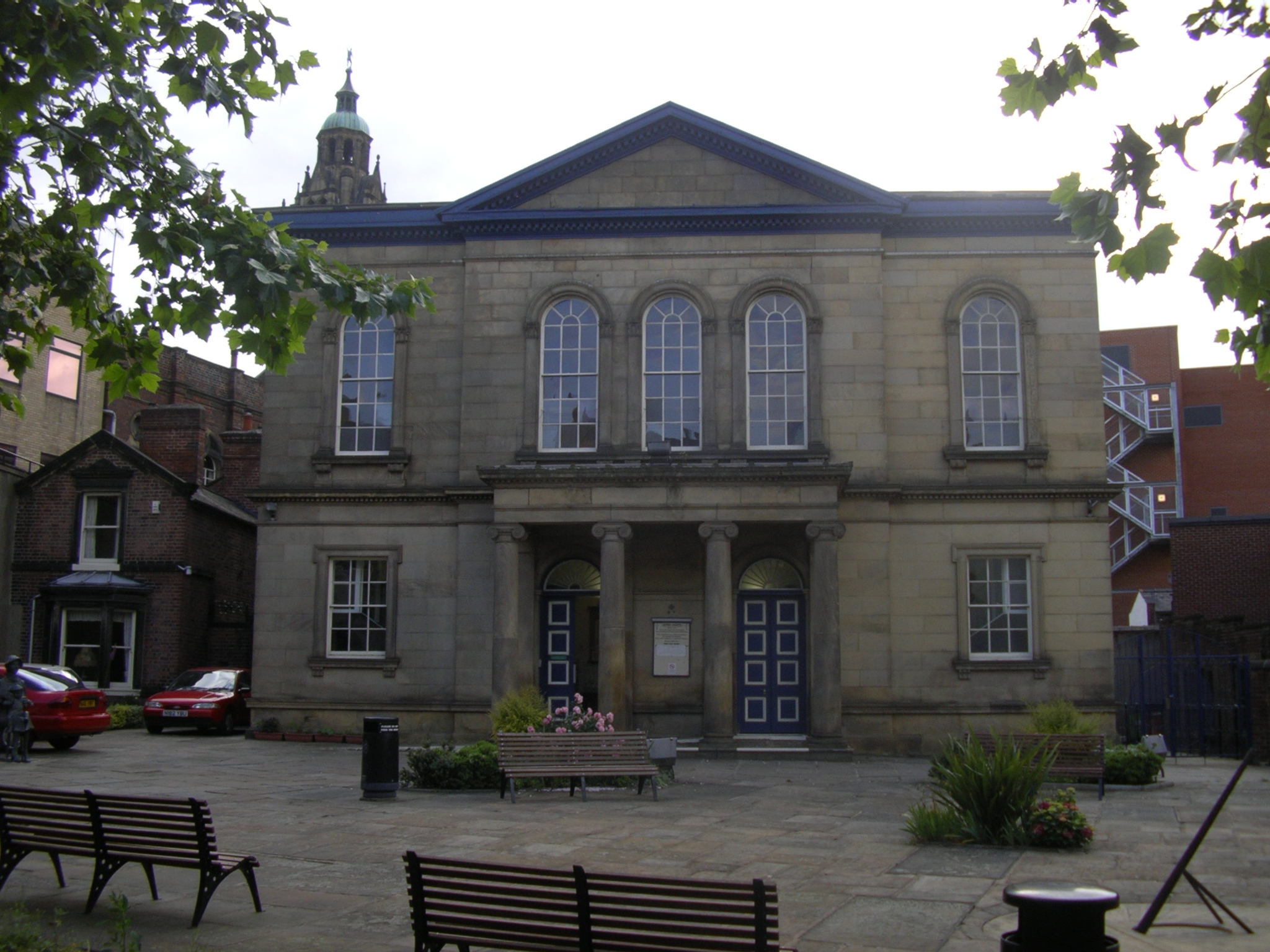 Upper Chapel, Norfolk Street, Sheffield, South Yorkshire, seen from the east